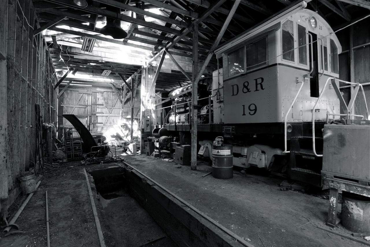 D and R 19 under repair in April of 2011.